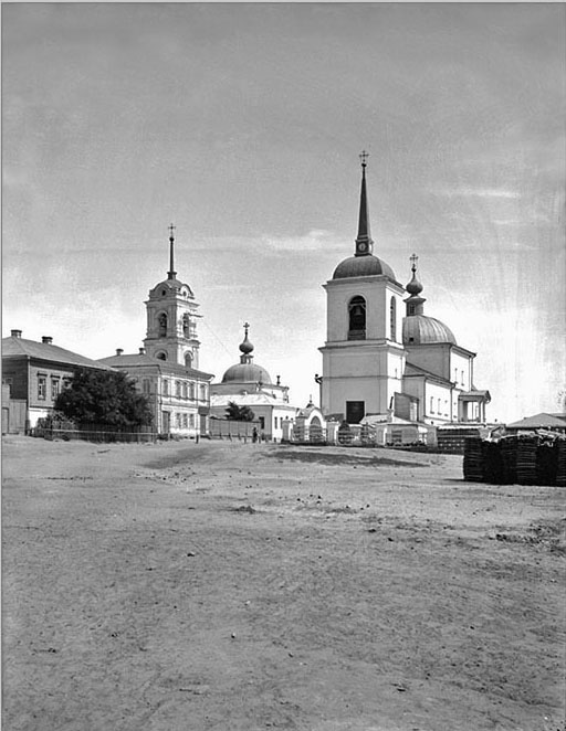 Trinity church (left) and Church of the Assumption in Tsaritsyn (Volgograd) city.